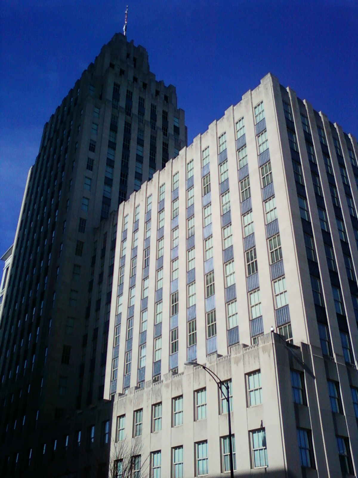 Reynolds Building, Winston-Salem, NC. RJR has put its former HQ building up for sale. Built in 1929, the 21-story building was designed by the same architects (Shreve & Lamb) who later designed the Empire State Building in New York City.